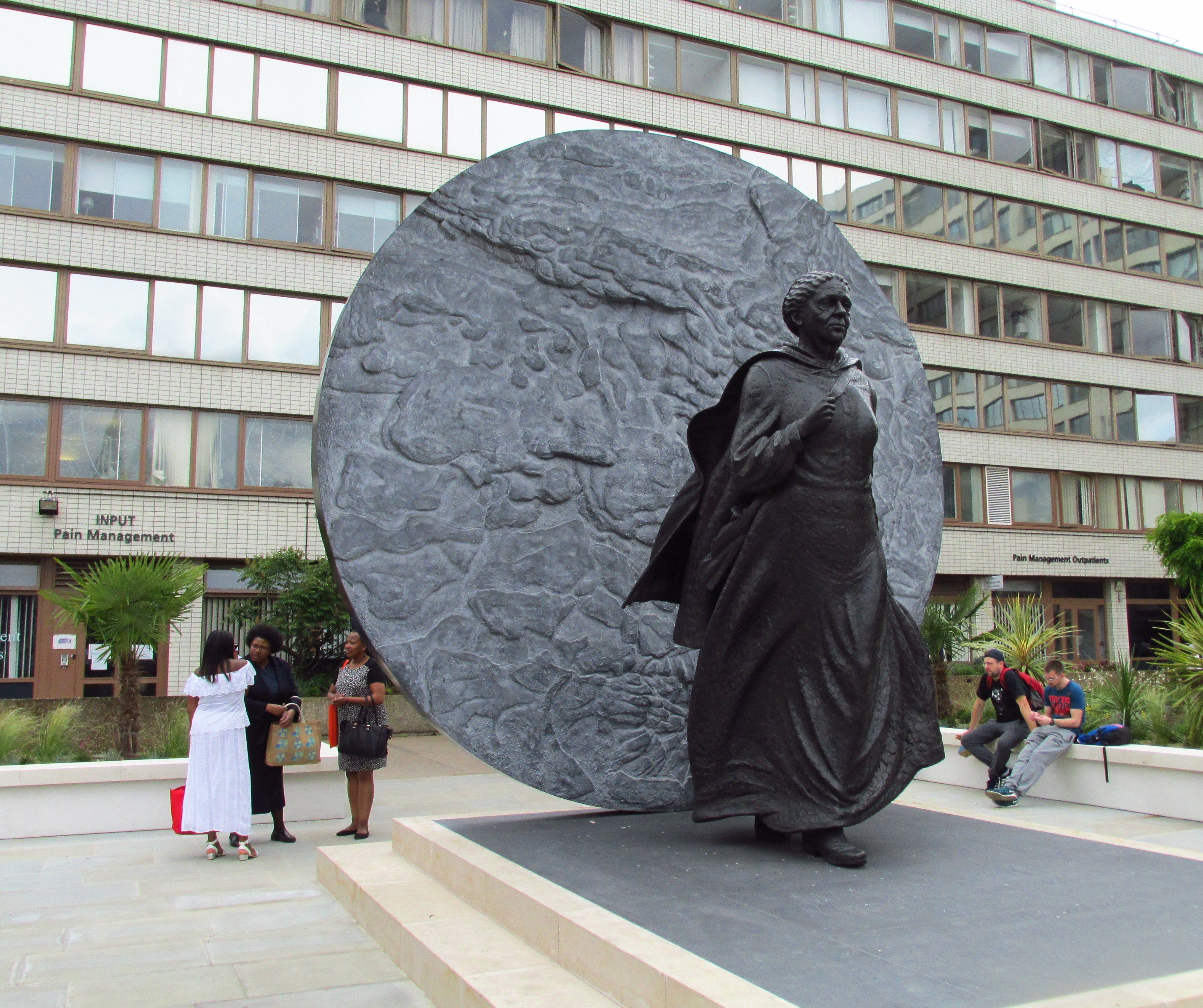 London July 4 2016 001 Mary Seacole Statue (3)